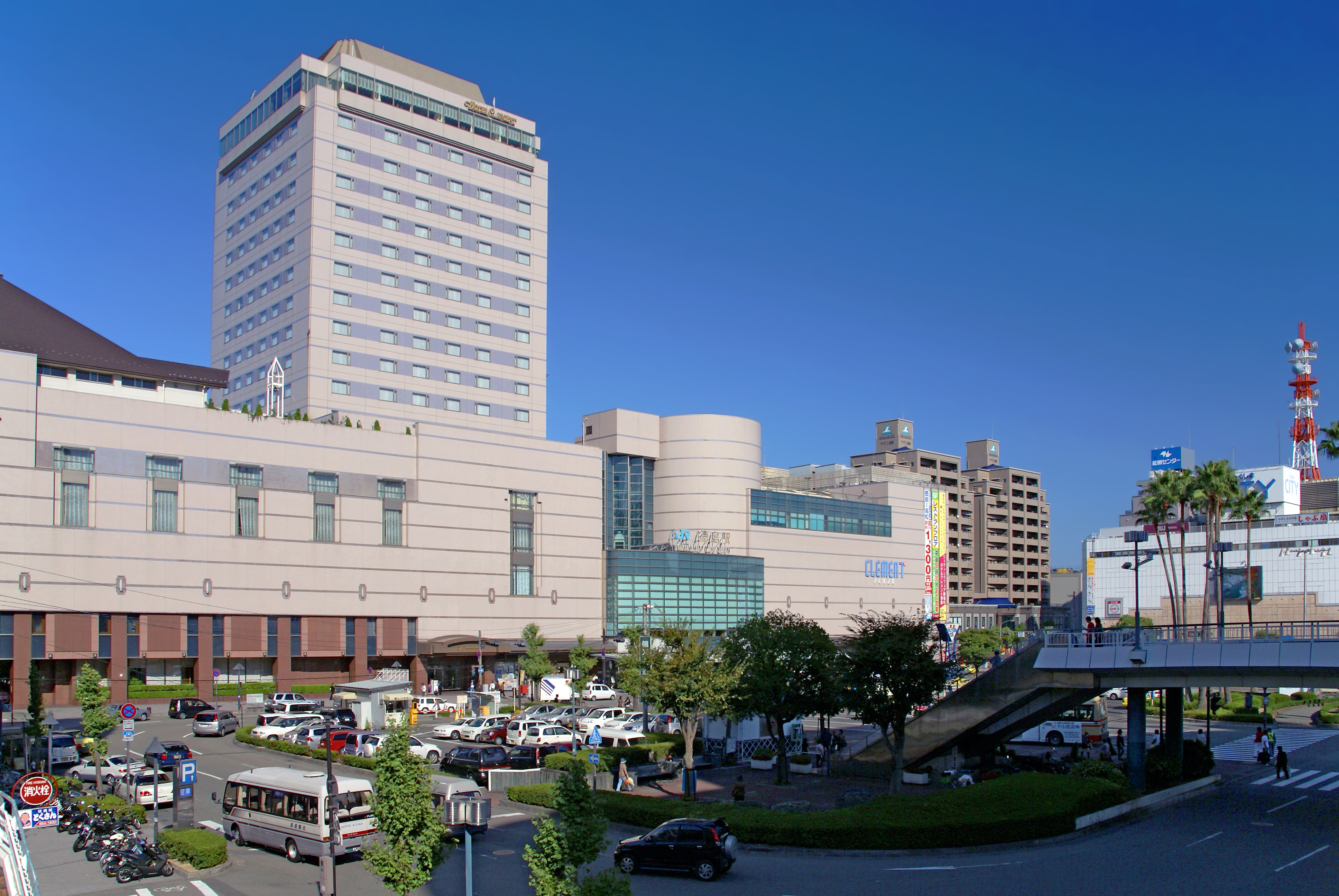 Tokushima Station in Tokushima, Tokushima prefecture, Japan